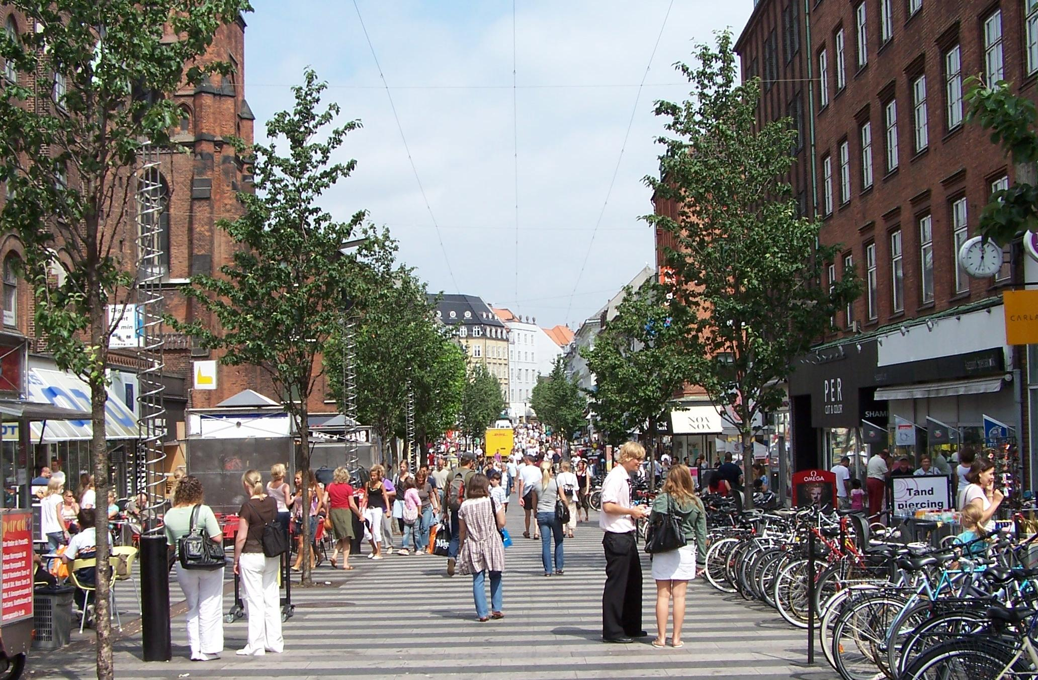 (c) 2006, Niels Elgaard Larsen Århus, Strøget Was in category Aarhus on wikivoyage